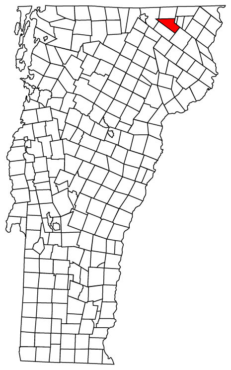 Description: Map of Vermont towns with Morgan highlighted Source: Map created by Jared C. Benedict on 26 March 2004. Copyright: © Jared C. Benedict.